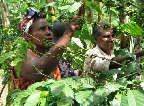 Caption: Molly, a female farmer from Uganda, attends a USAID-supported field school. The field schools have contributed to 36% increase in average income for more than 260,000 households in Uganda. Molly has seen the price of her coffee crop more than double in the past three years. With higher income, she has increased her coffee holdings from 250 to 400 trees. She attributes the spike in coffee price to three factors: group bulking and selling of product, eliminating middlemen, and selecting a higher percentage of ripe coffee cherries.